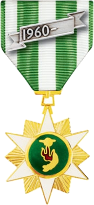 Vietnam Campaign Medal with 1960- clasp